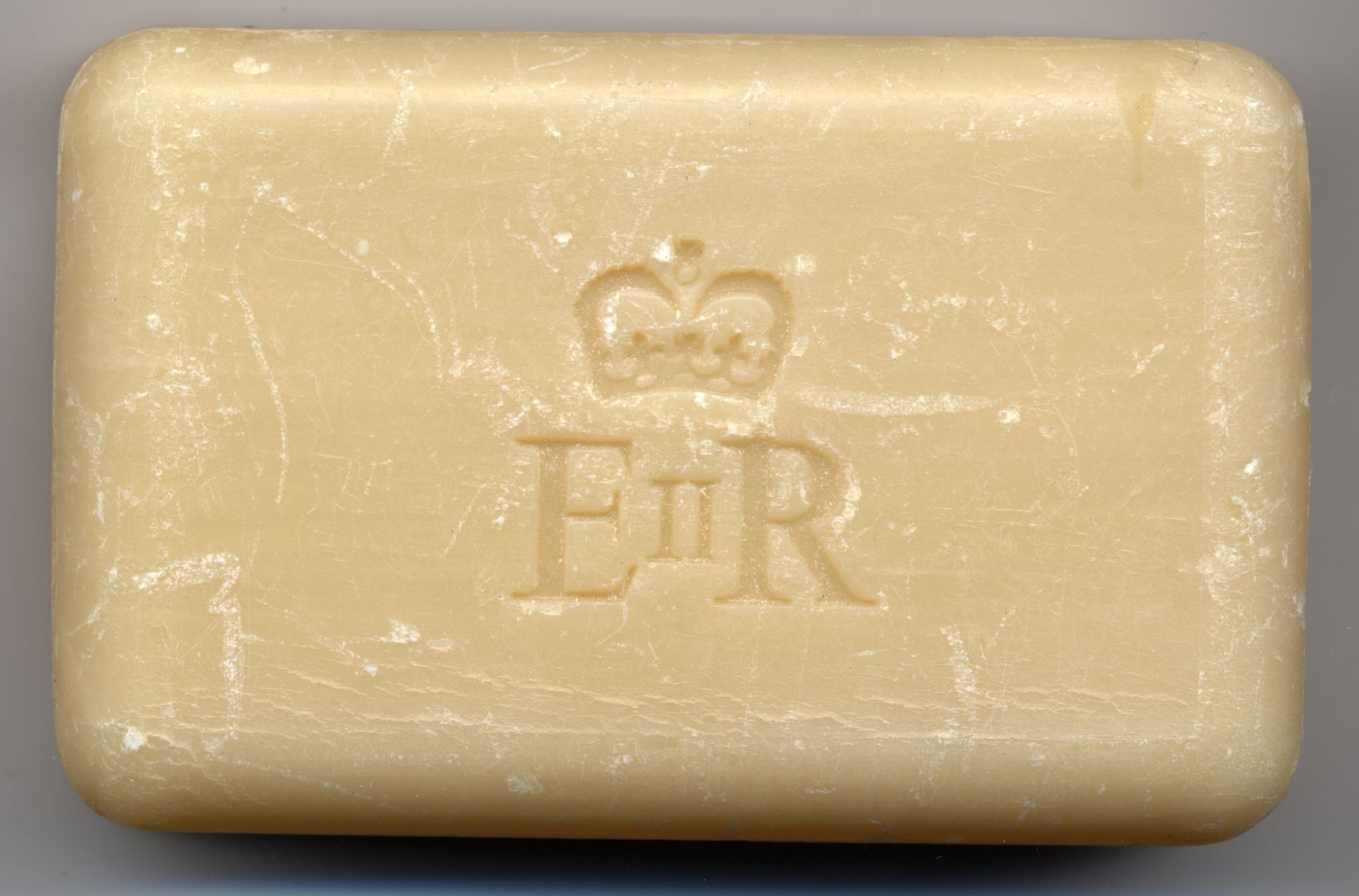 A souvenir soap of Elizabeth II of the United Kingdom.